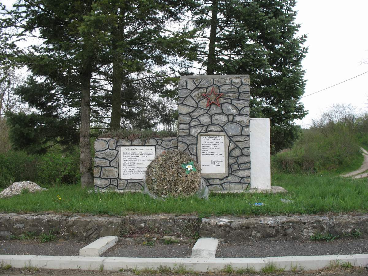 Monument from WWII battle (27.10.1943) on Kosmaj, near Belgrade, Serbia.